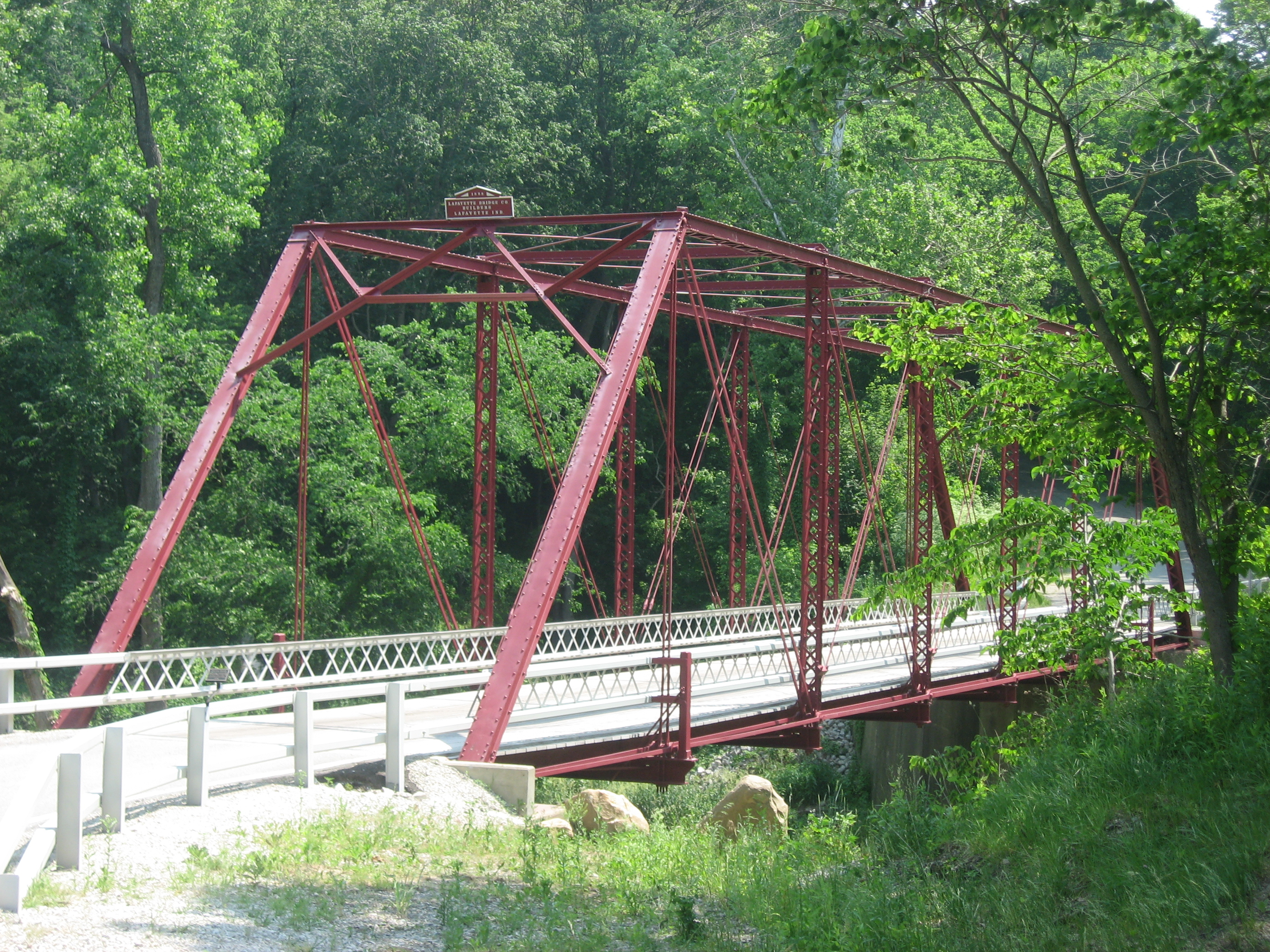 Western portal and southern (downstream) side of the Wilson Bridge, which carries County Road 300N over Deer Creek east of Delphi in Deer Creek Township, Carroll County, Indiana, United States. Built in 1897, it is listed on the National Register of Historic Places, and it is part of a Register-listed historic district, the Deer Creek Valley Rural Historic District.